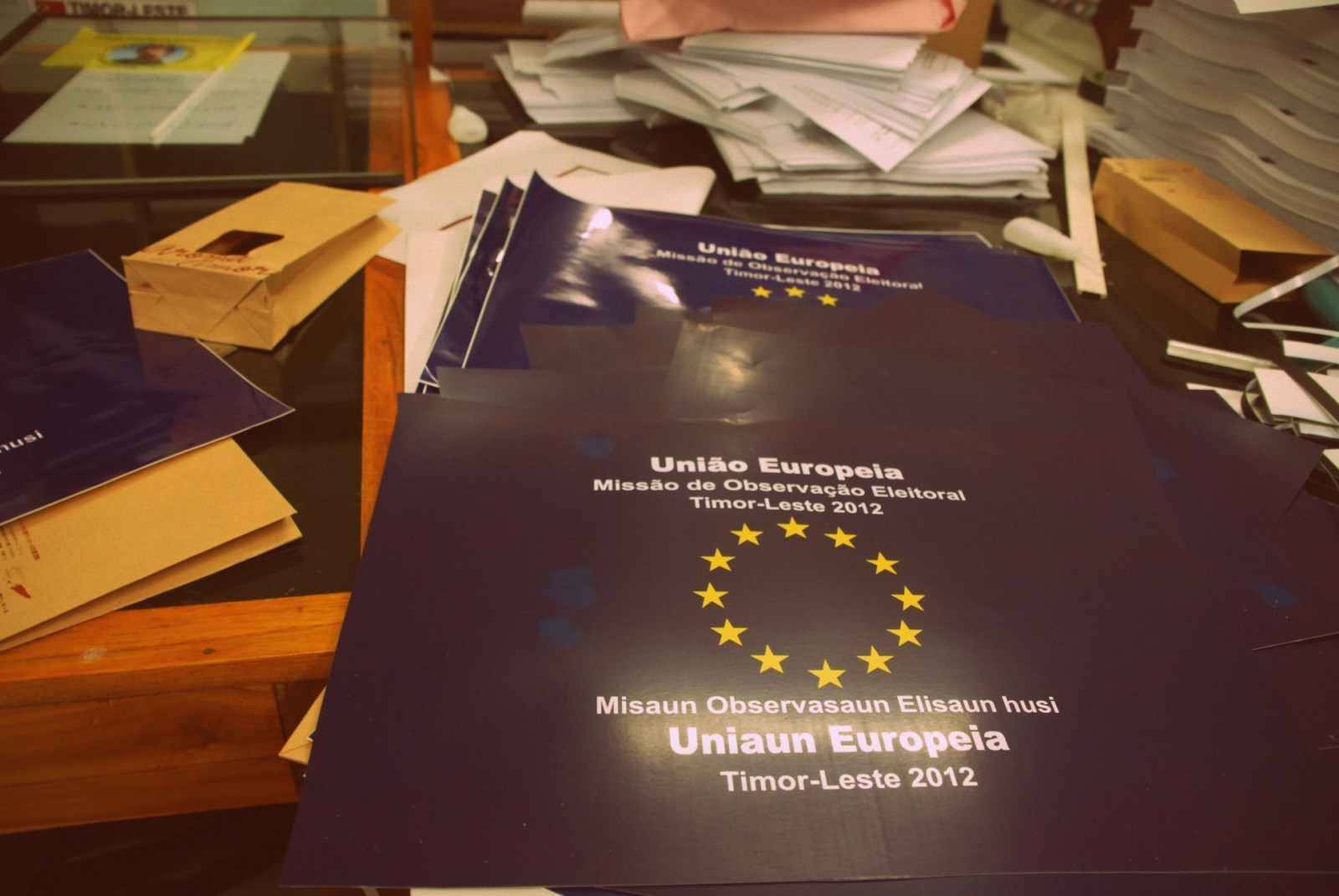 EU Electoral Observer Mission Timor-Leste 2012 for parliamentary election